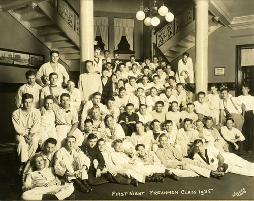 The freshman class in 1935 pose on the main stairway of Hays Hall, the freshman dormitory, for their official "first night" picture.